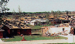 Van Buren, AR, April 23, 1996 -- Heavy damages were sustained in the Cedar Creek Subdivision of Van Buren. Some houses were completely levelled. Photo by Win Henderson/ FEMA News Photo